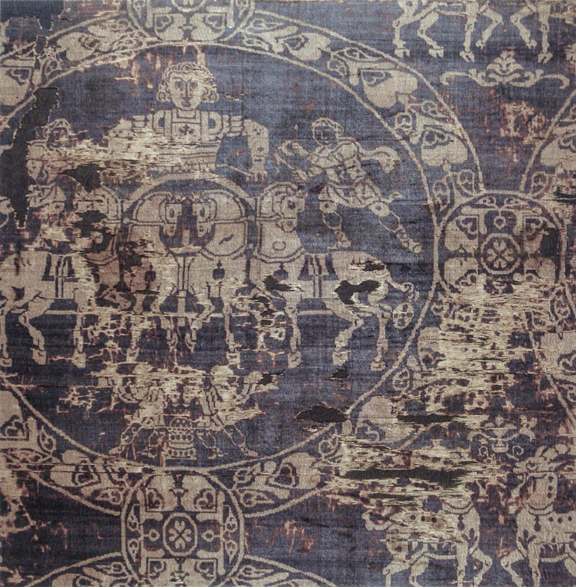 The Shroud of Charlemagne, a polychrome crimson-hued silk with a pattern showing a quadriga, Byzantine, 8th or 9th century. Paris, musée national du Moyen Âge. This section was cut in 1850 from the shroud in the Aachen Cathedral Treasury, where a section of about the same dimensions remains.